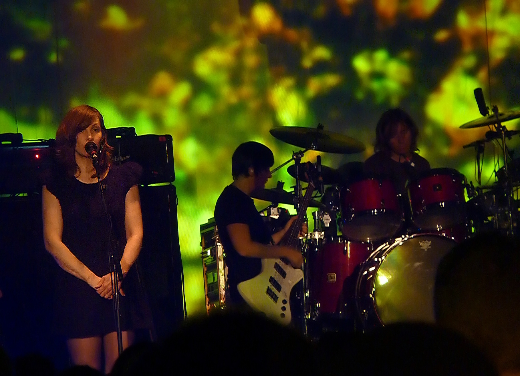 My Bloody Valentine performing at ATP Minehead, Nightmare Before Christmas 2009.